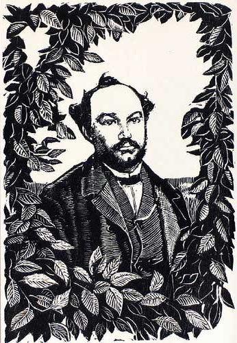 Jean Baptiste Desiré Beauvais (1831-1896), Danish industrialist